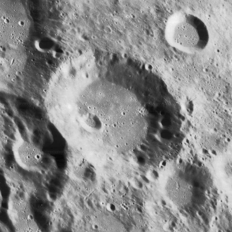 Slightly oblique view of Bayer (crater), on the moon.